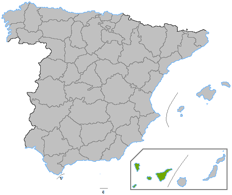 Location of the province of Santa Cruz de Tenerife, in Spain. Basado en: ProvPont.jpg Source: Designed by Satesclop. Original picture, designed by Sobreira.